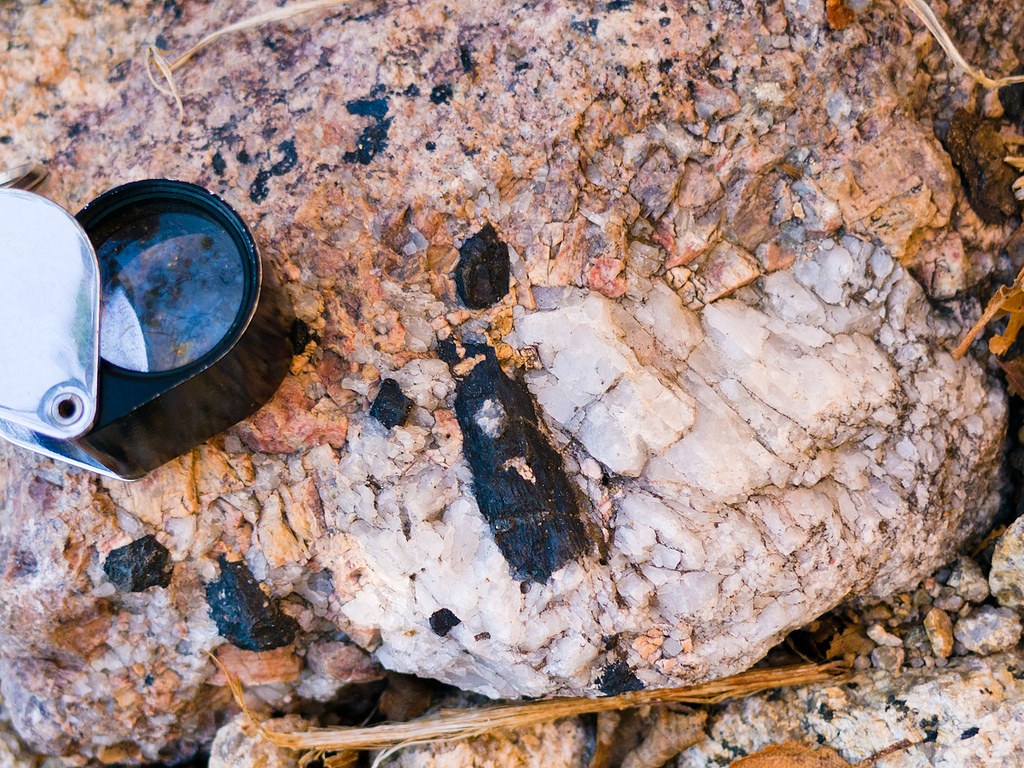 Large crystals of dark riebeckite amphibole in a pegmatitic border of Permian alkaline granite (locally termed Lindinosite), near Évisa (Corsica, France). The lens is ca. 2cm in diameter.